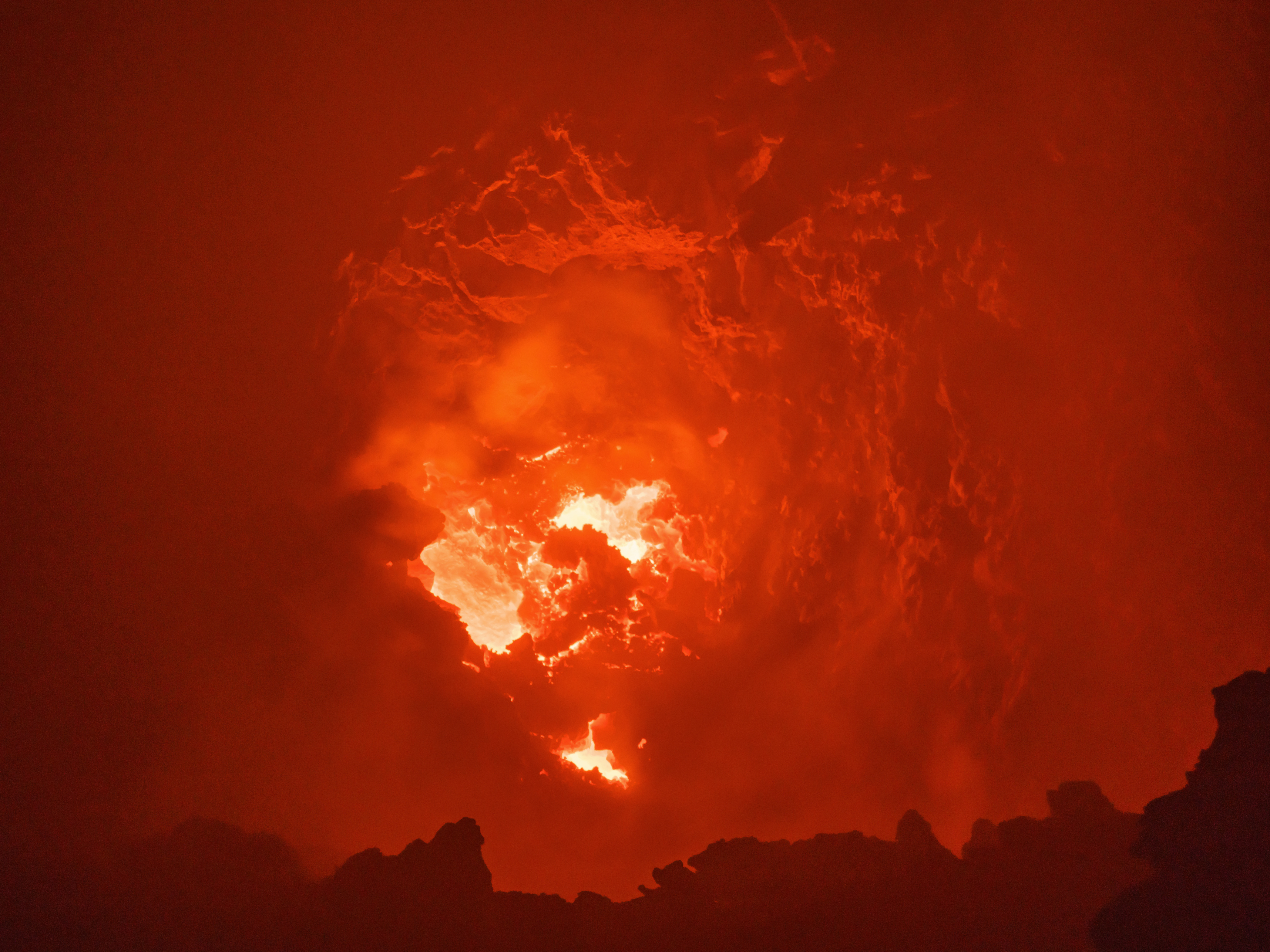 Lava lake on Erta Ale volcano, Afar Region, Ethiopia